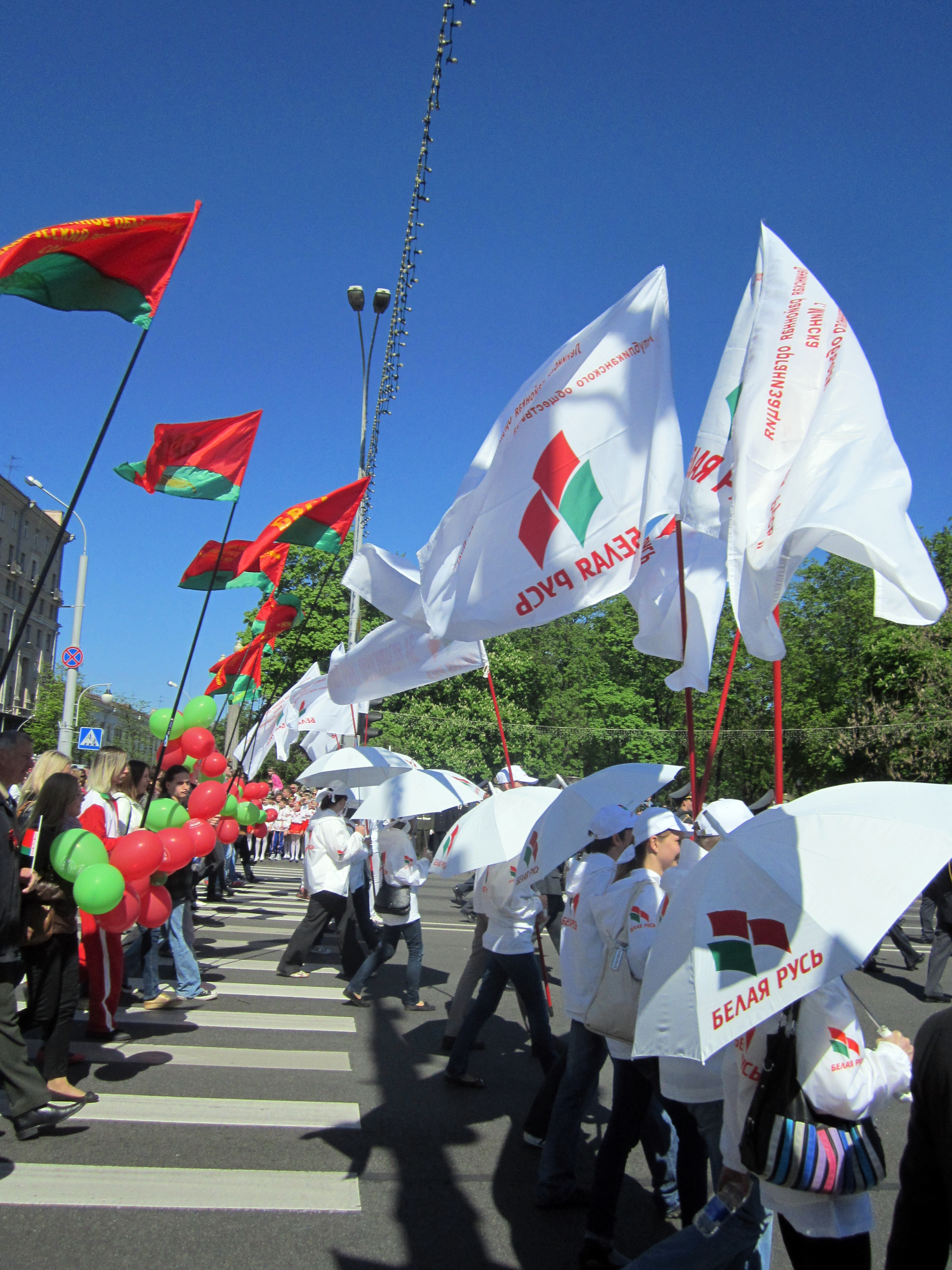 Members of the organization «Belaya Rus» on Victory Day parade May 9, 2012. Belarus, Minsk, Independence Avenue.